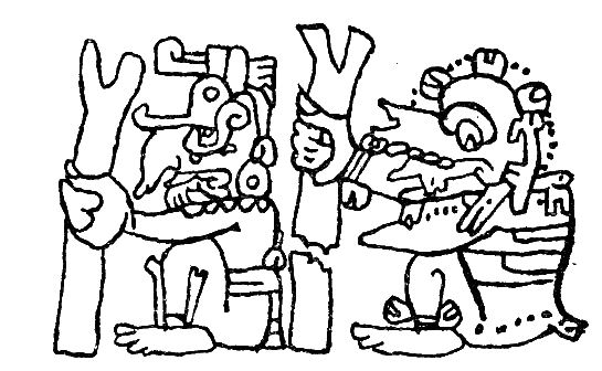 Conflict between the Gods of Life and Death (Kukulcan and Ahpuch)